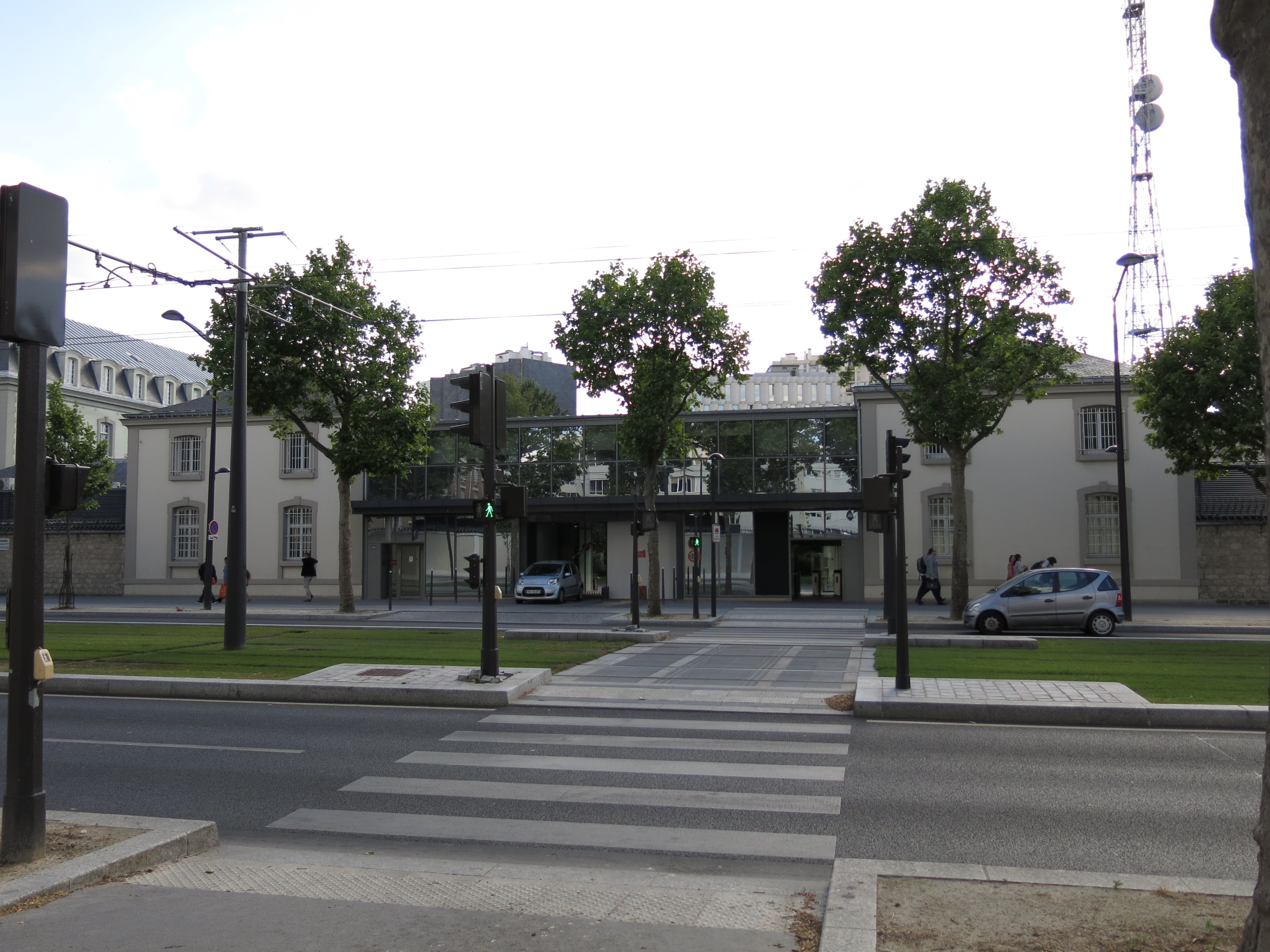 Head office of the Directorate-General for External Security - Building 141 boulevard Mortier, Paris 20th arrond. (Paris, France).